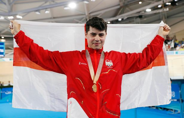 Commonwealth Games IP